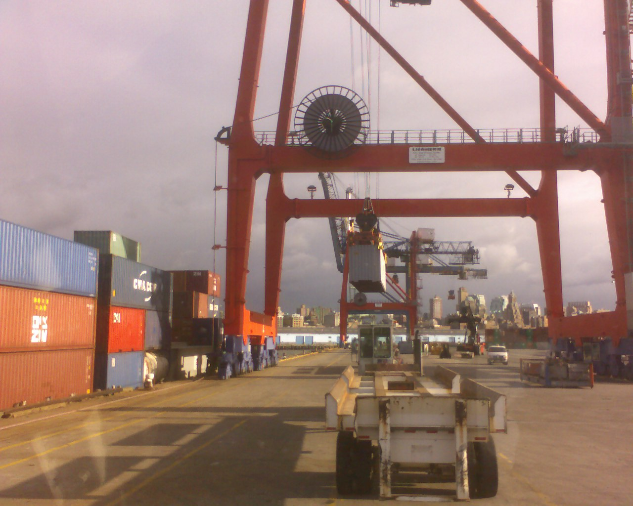 Redhook Terminal 12-04-07